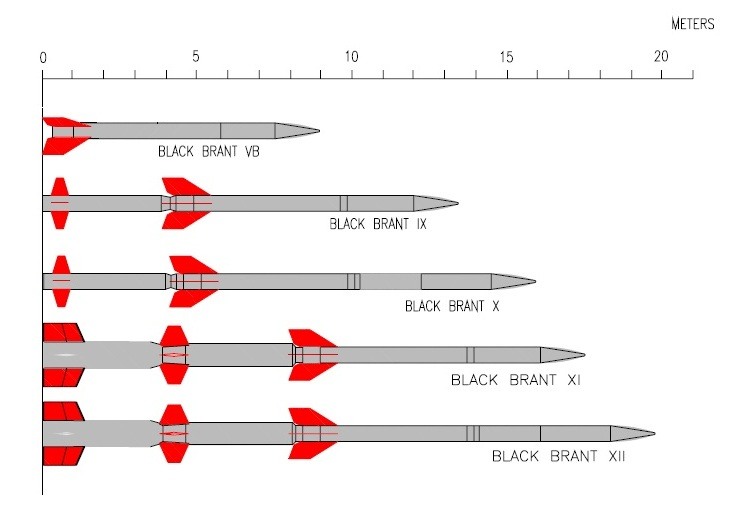 Black Brant sounding rockets shapes (horizontal).